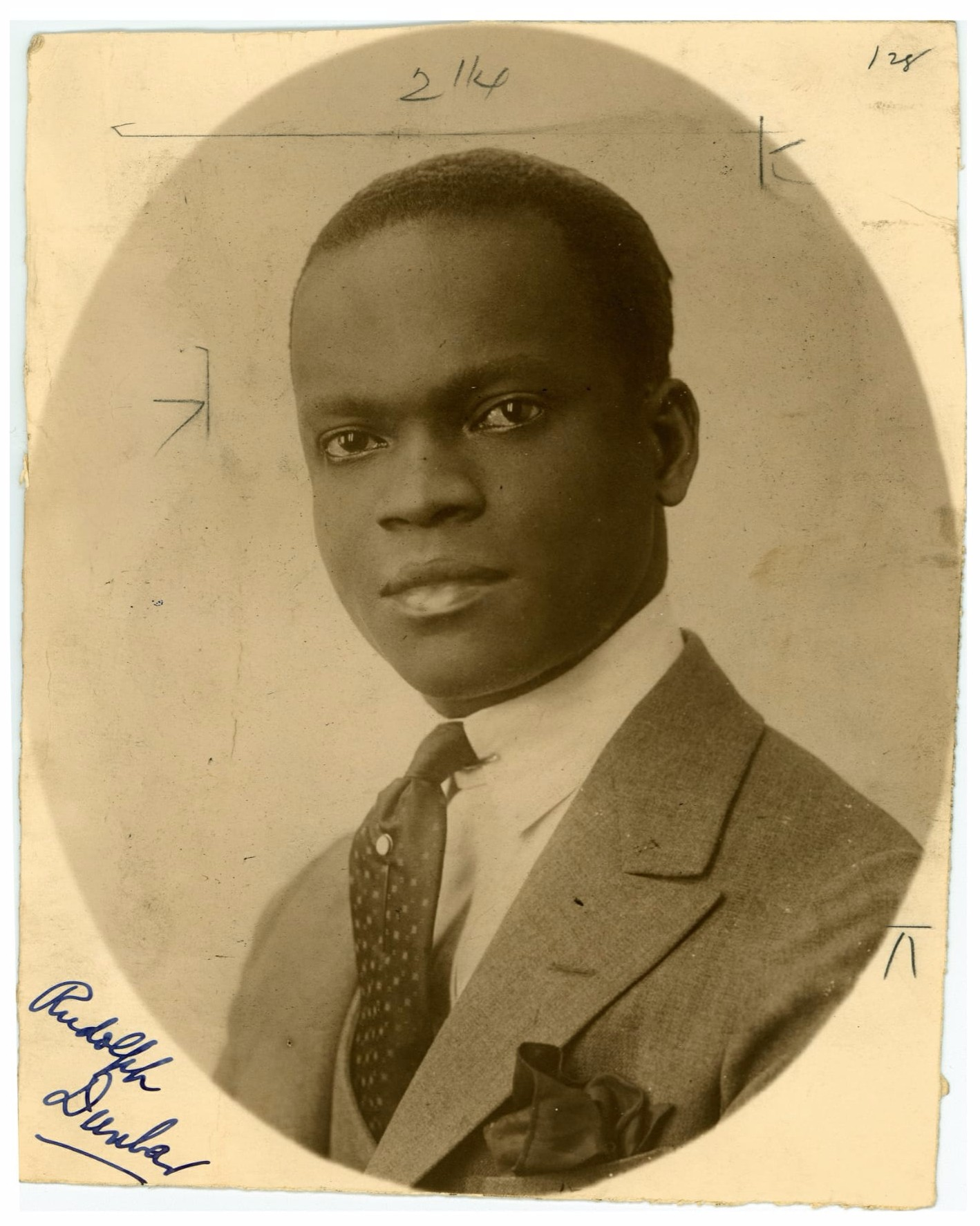 Rudolph Dunbar, ca. 1920. Bust portrait of young man in suit jacket, vest, and tie.